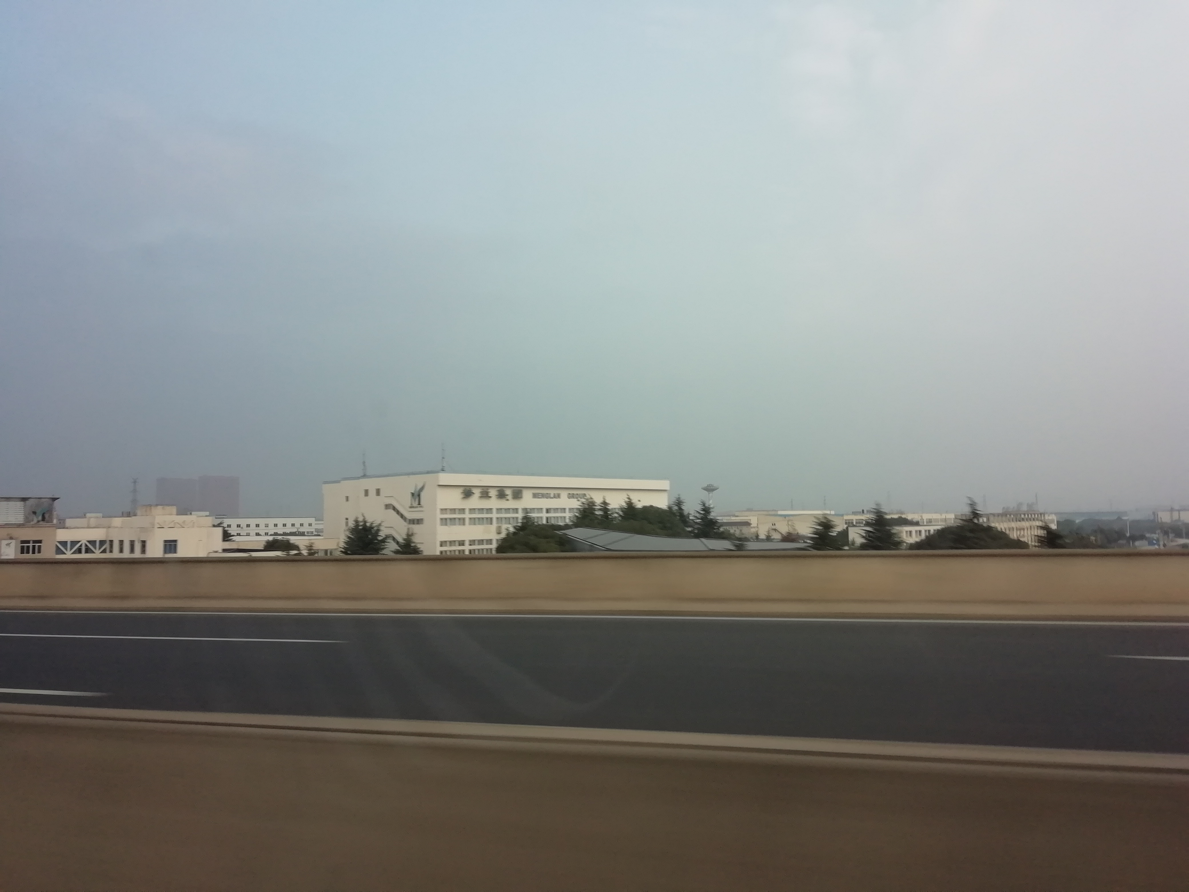 Menglan Group, a textile company, located in Changshu, Jiangsu. 中文（中国大陆）: 江苏常熟的梦兰集团总部